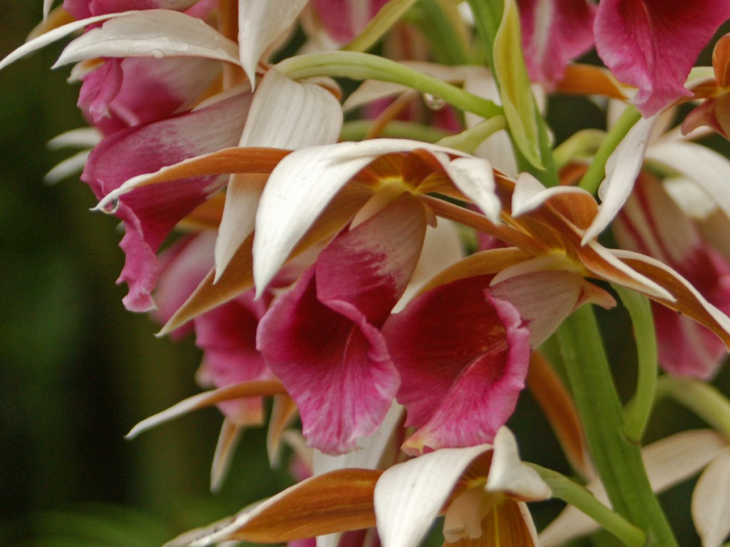 Phaius tancarvilleae - Botanika Zahrada Fata Morgana Praha